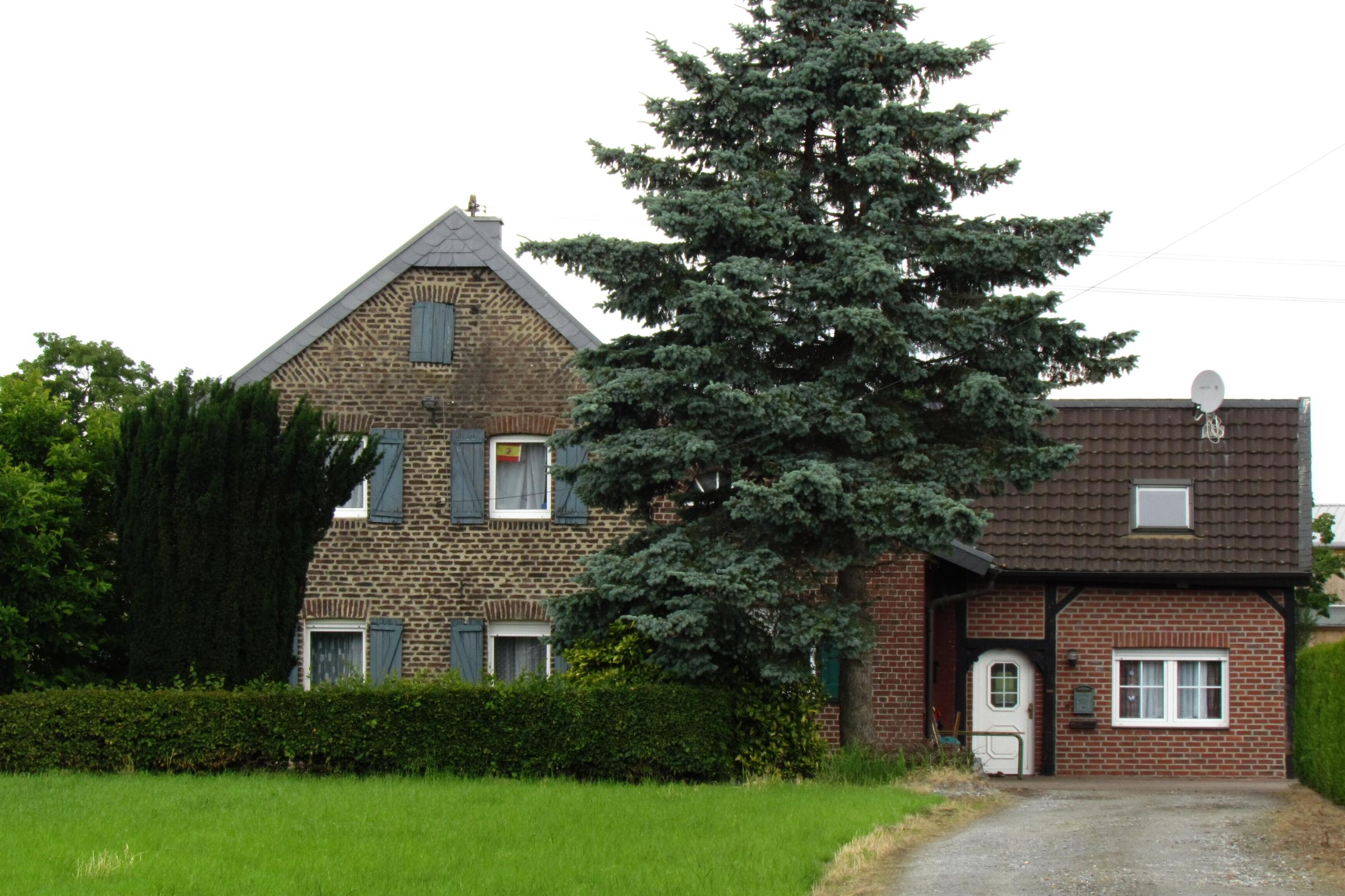 This is a photograph of an architectural monument.It is on the list of cultural monuments of Korschenbroich